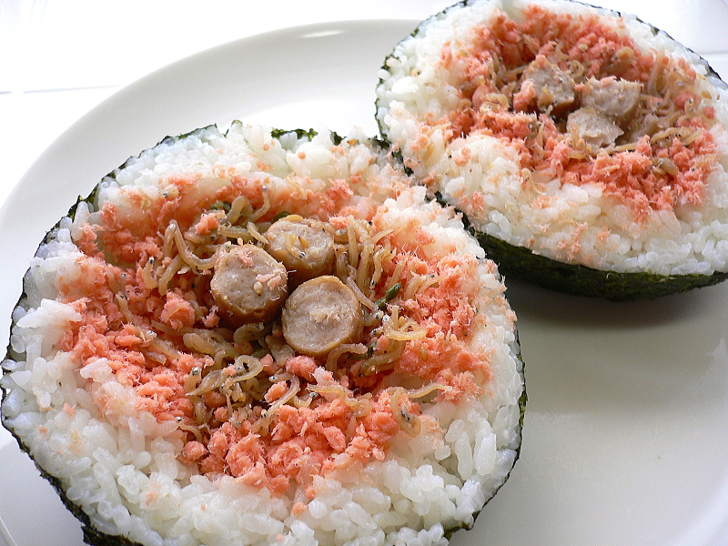 Sectional view of bakudan (bomb) onigiri